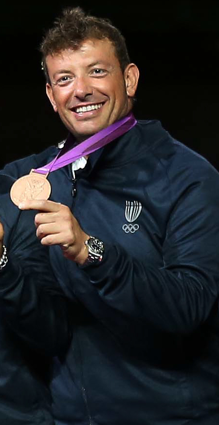 2012 London Olympic Games Korea won the gold medal men's team Saber fenching. Gu Bongil, Kim Junghwan, Won Woo-young and Oh Eunseok 2012. 08. 05. hoto by Korean Olympic Committee Ministry of Culture, Sports and Tourism Korean Culture and Information Service 2012 런던 올림픽 한국 남자 사브르 단체전 금메달 획득 구본길, 김정환, 원우영, 오은석 사진제공 - 대한체육회 문화체육관광부 해외문화홍보원